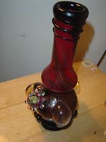 Find on : File history : 16:58, 24 March 2006 . . Johnskate17 . . 150×200 (29,349 bytes) (Red hand-blown glass marijuana water pipe. Packed with high-grade marijuana.)